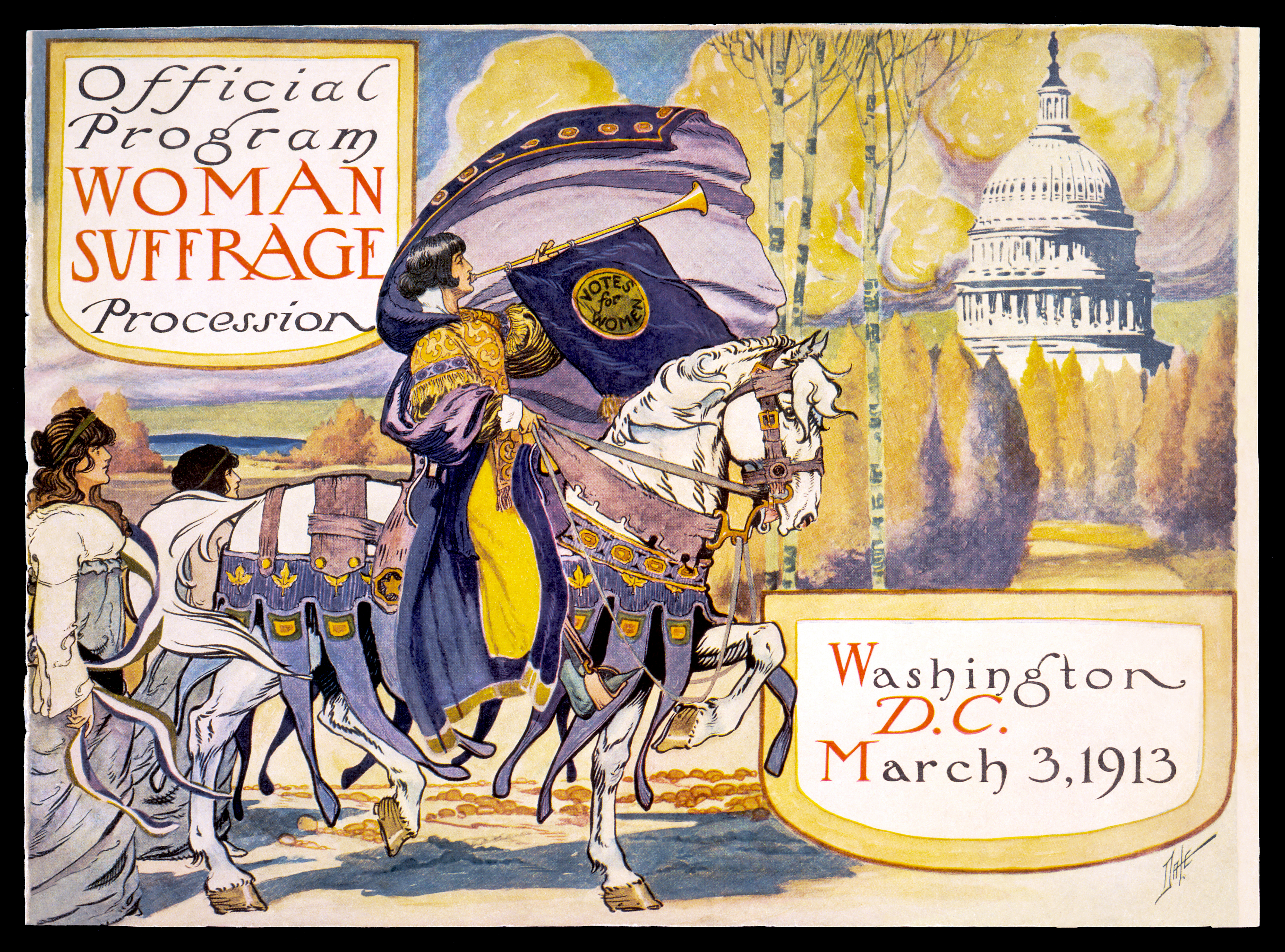 Official program - Woman suffrage procession, Washington, D.C. March 3, 1913. Cover of program for the National American Women's Suffrage Association procession, showing woman, in elaborate attire, with cape, blowing long horn, from which is draped a "votes for women" banner, on decorated horse, with U.S. Capitol in background.